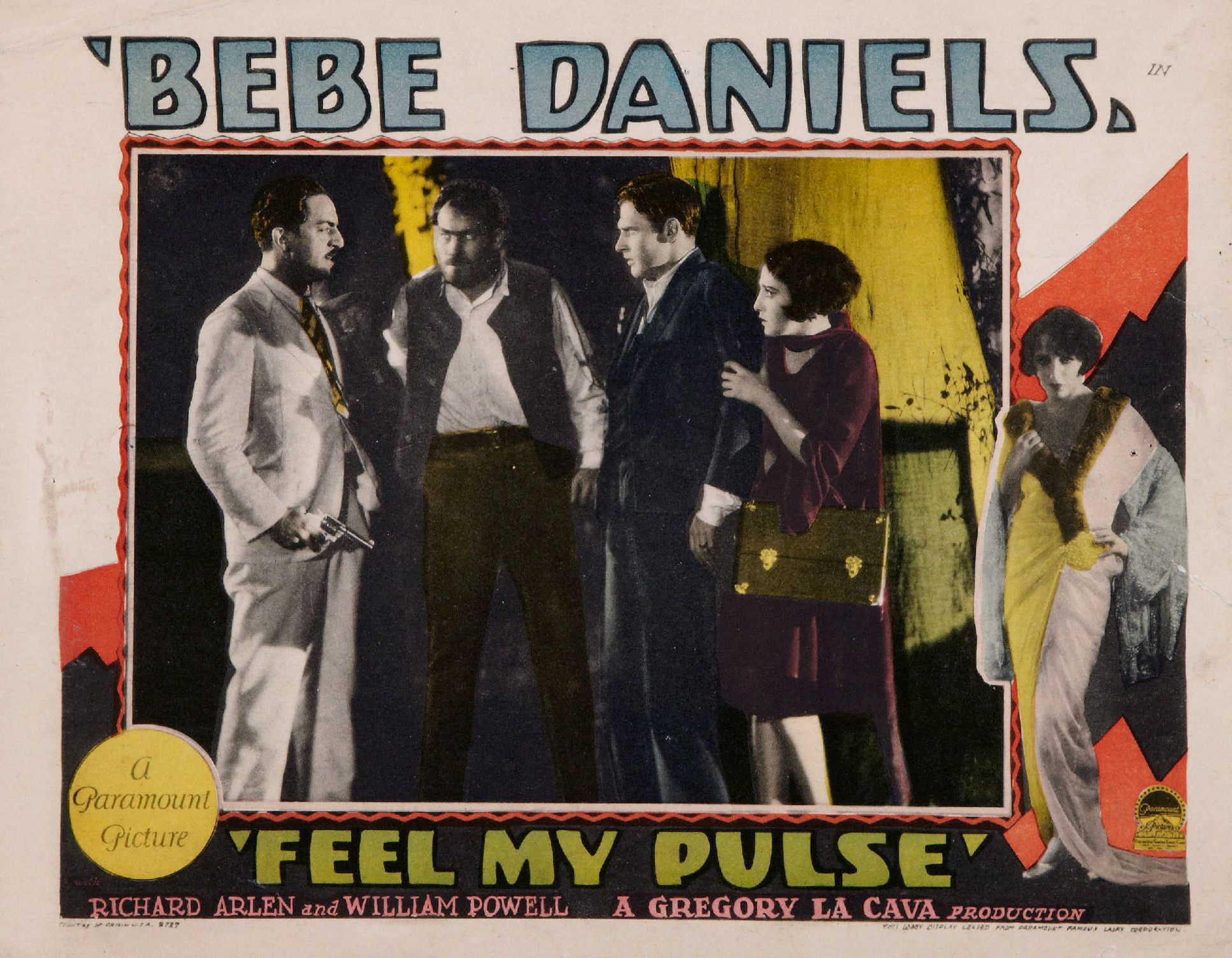 Lobby card for the film Feel My Pulse (1928). There are no copyright marks on the item. At lower left is Country of origin USA 2727. At lower right is This lobby display leased from Paramount Famous Players Lasky Corporation.